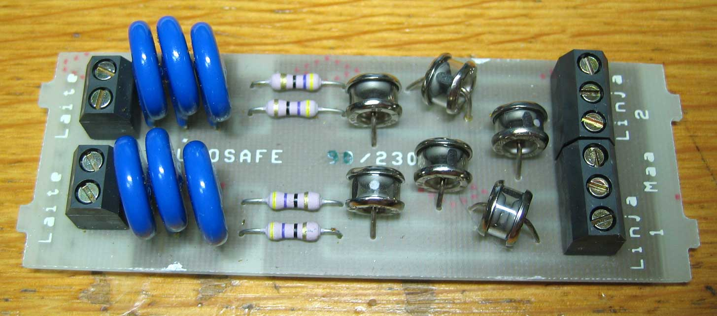 Type of mains surge arrestor used in telecoms devices such as phones, faxes and modems.